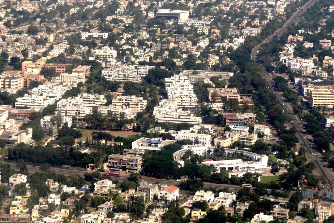 Aerial view of CIDCO area, Aurangabad. You can see Lemon Tree Hotel, Connought Place, CIDCO Auditorium, Hotel Windsor Castle and Jalgaon Road in the photo.